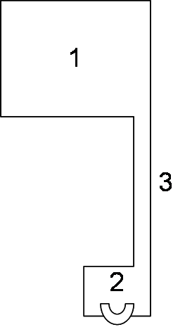 Cross cut of the tunnel of Efpalinos